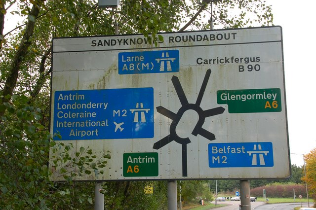 Sandyknowes roundabout near Belfast (1) Sandyknowes roundabout is a celebrity roundabout and star of a thousand traffic reports on BBC Radio Ulster. The sign is self-explanatory. It is on Scullions Road which serves a large commercial area at Mallusk to the NW of Belfast. The roundabout now has full-time lights at some roads. There are vague plans for a flyover to connect it to the Larne road (A8 (M)).